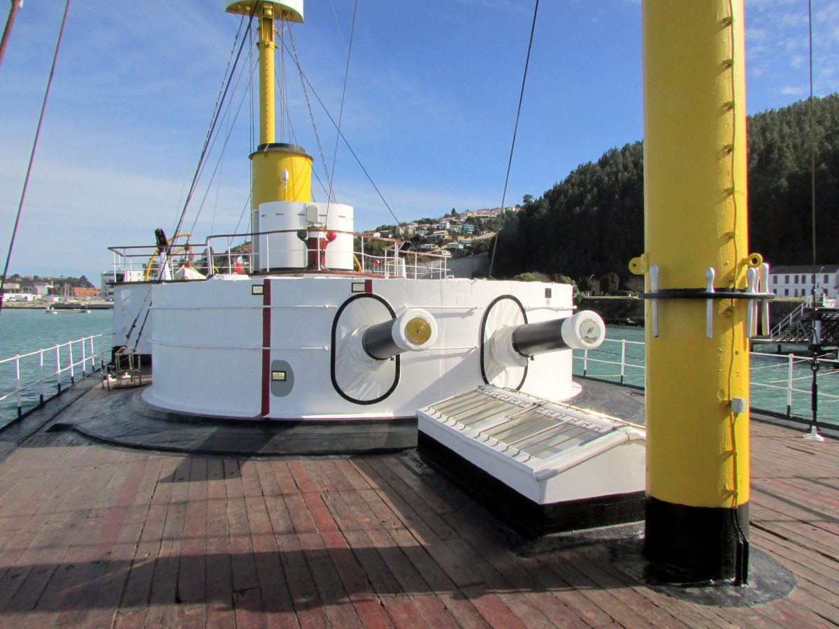 Turret with ship's main artillery